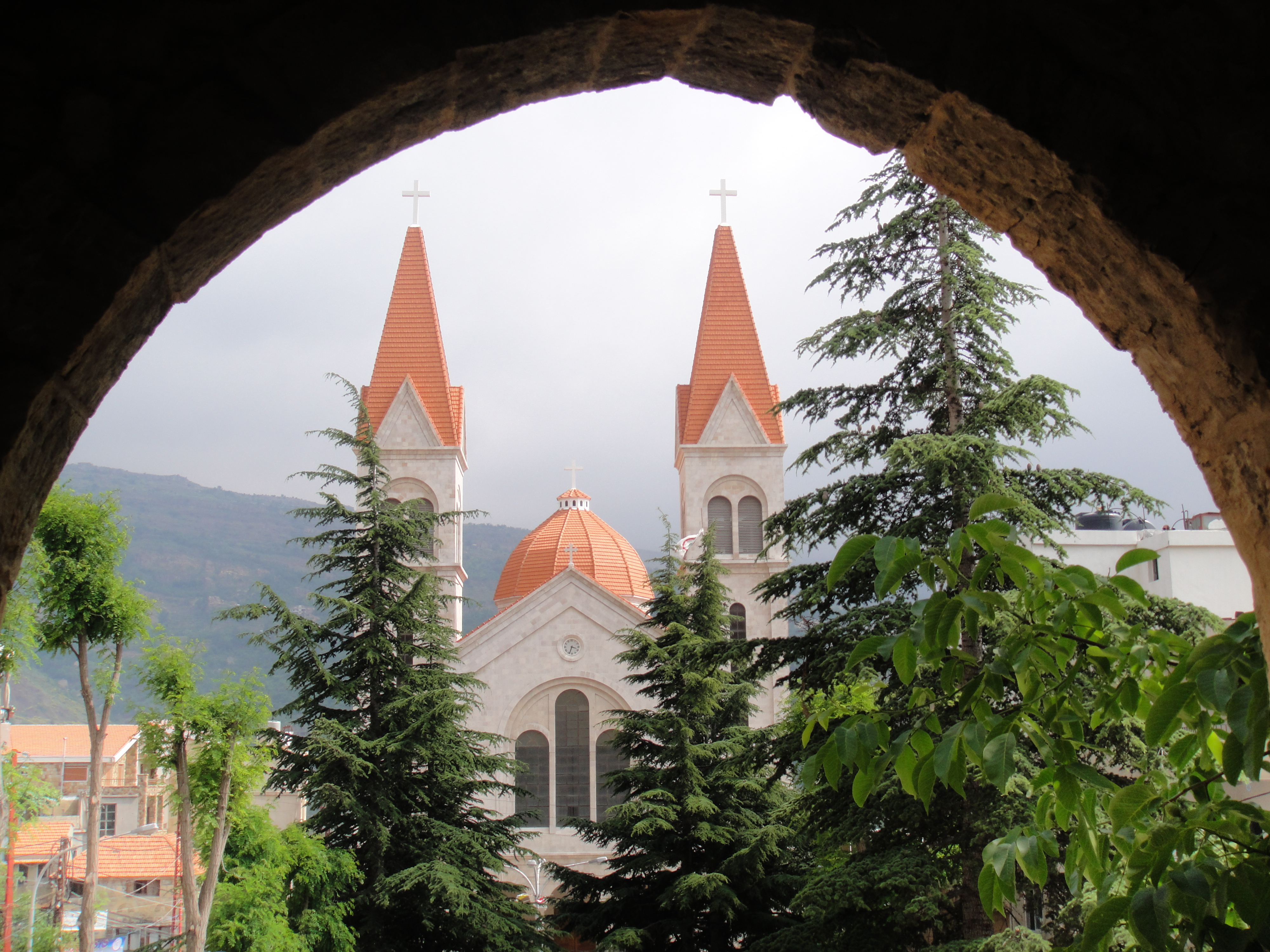 One of Bsharri's cathedrals